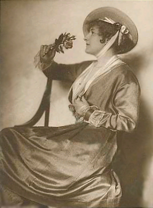 German actress and producer Lu Synd, photograped by Nicola Perscheid